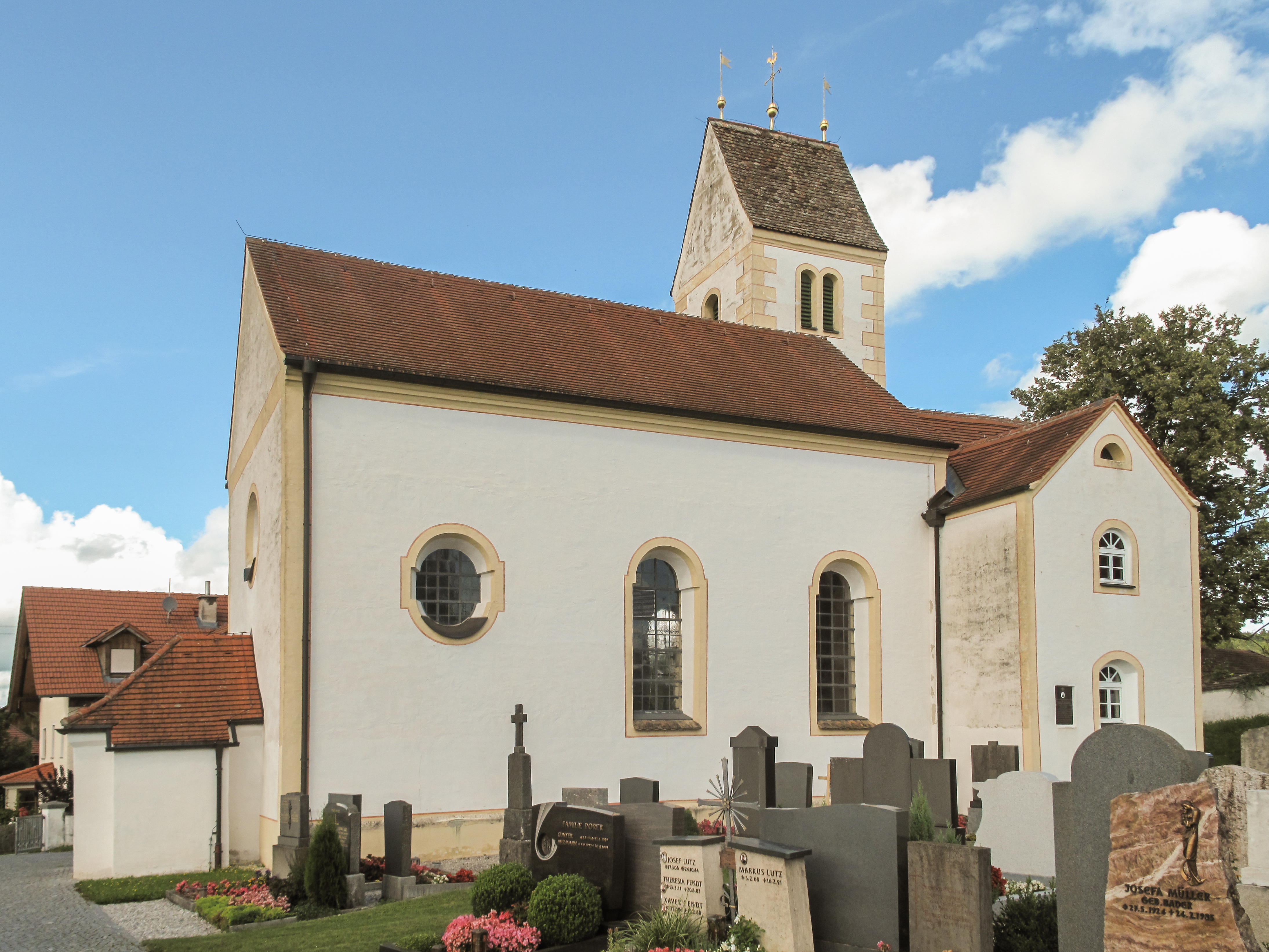 Marnbach, church: die Sankt Michael Kirche